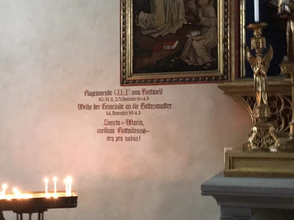 Inscription of the Our Lady of the Turning Eyes altar in Holy Cross Munster in Rottweil, Germany